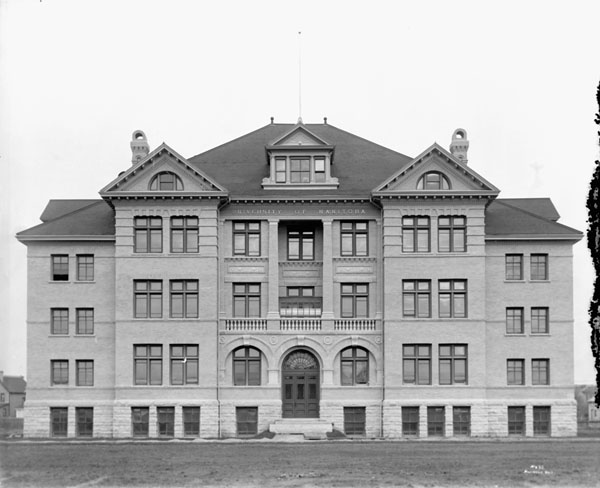 Historical Photo of University of Manitoba